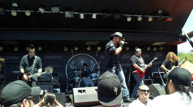 Back From Ashes performing at Mayhem Festival 2011